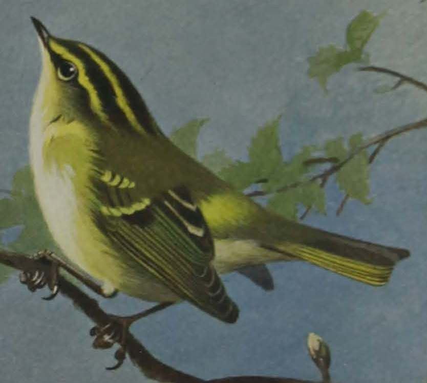 Pallas's Willow-Warbler (Phylloscopus proregulus). Archibald Thorburn